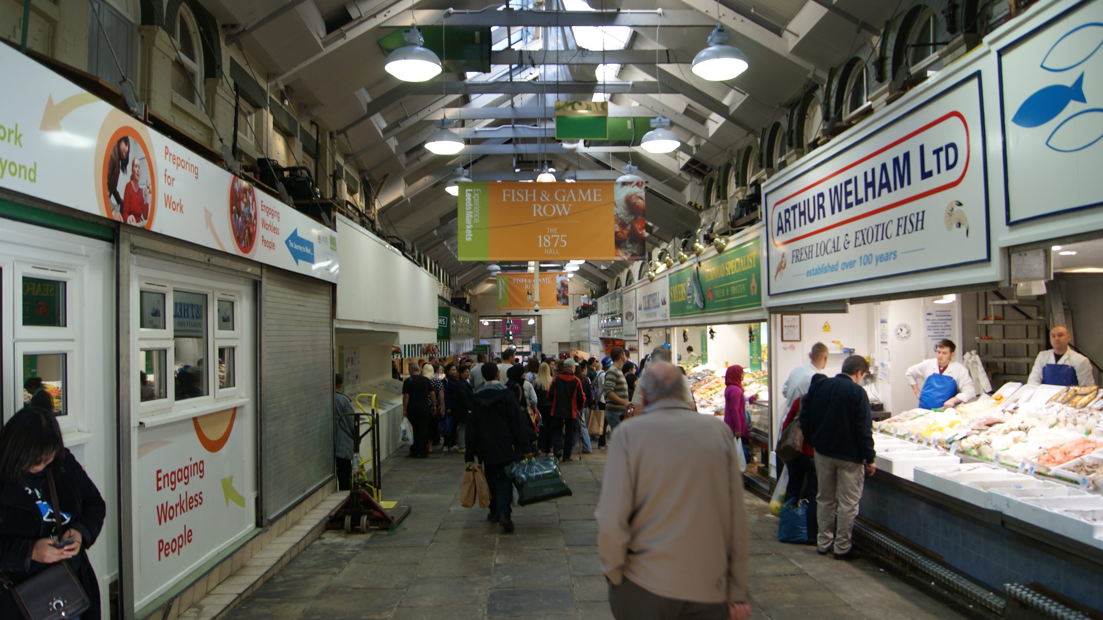 Fish & Game Row, Kirkgate Market, Leeds, West Yorkshire. Taken on the afternoon of Saturday the 22nd of September 2012.